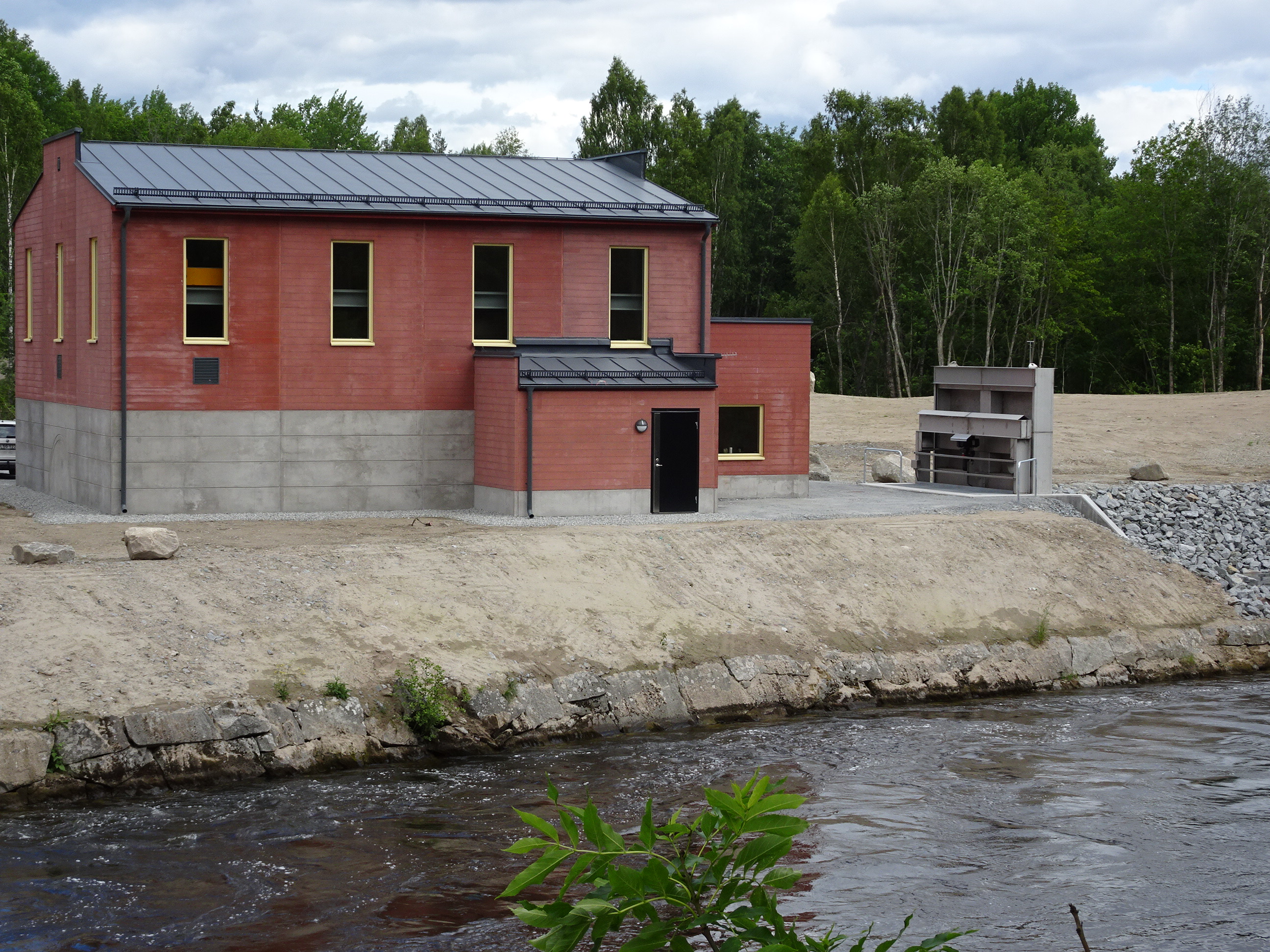 Semla IV hydroelectric power station. Built 2017. Located near Fagersta, Sweden.